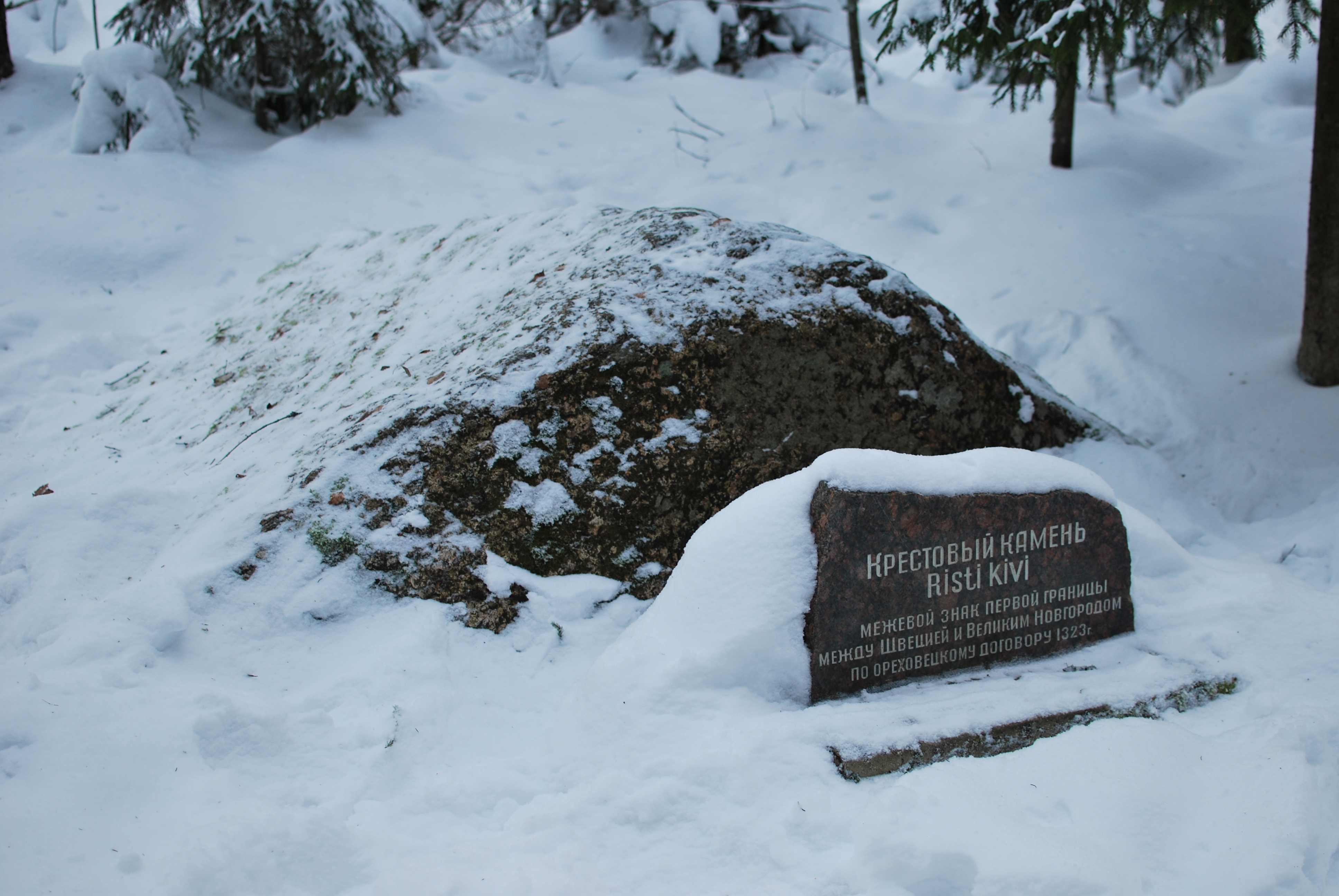 Stone marking the Treaty of Nöteborg border